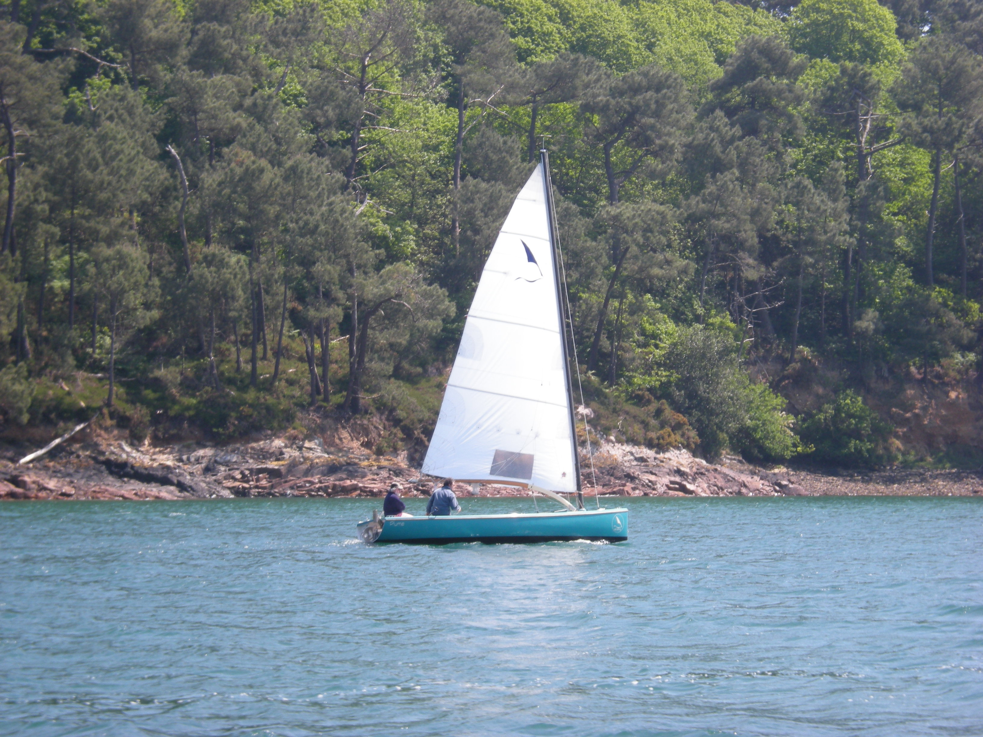 Plume, one-design catboat, on the Trieux river, Côtes-d'Armor, Bretagne, France